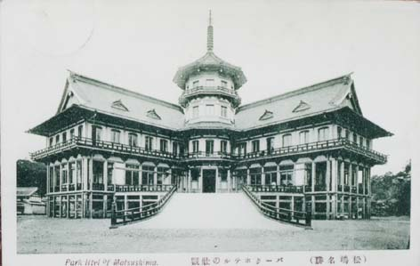 Vista frontal del hotal Matsushima, obra de Jan Letzel